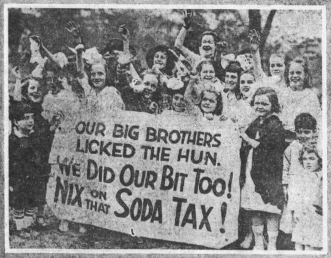 Soda Tax protest in NYC 1919